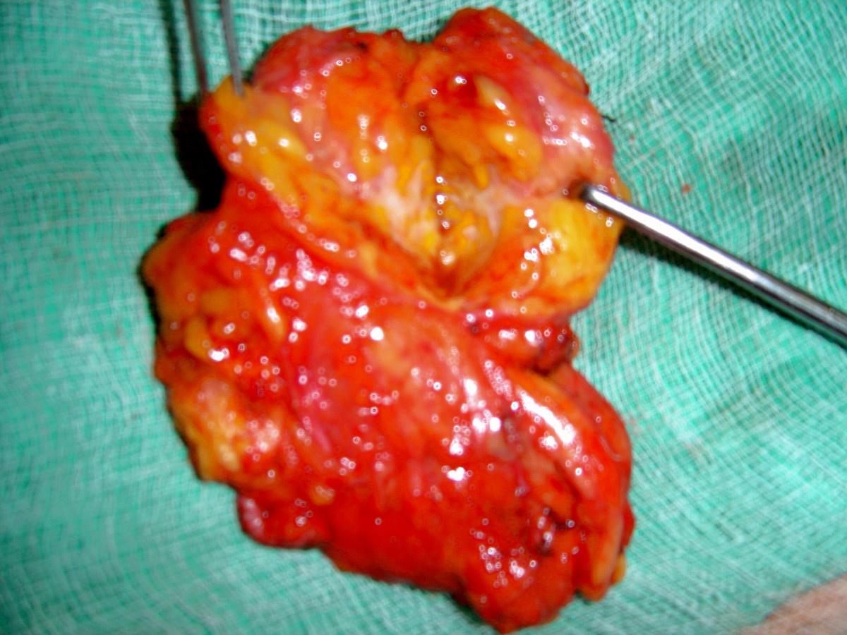 The resected specimen.